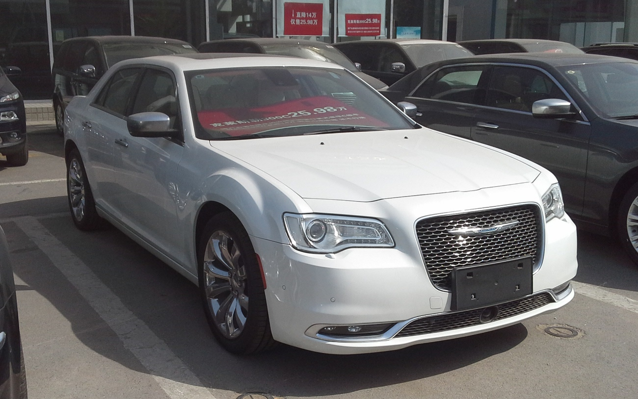 Chrysler 300C II facelift photographed in Beijing, China.